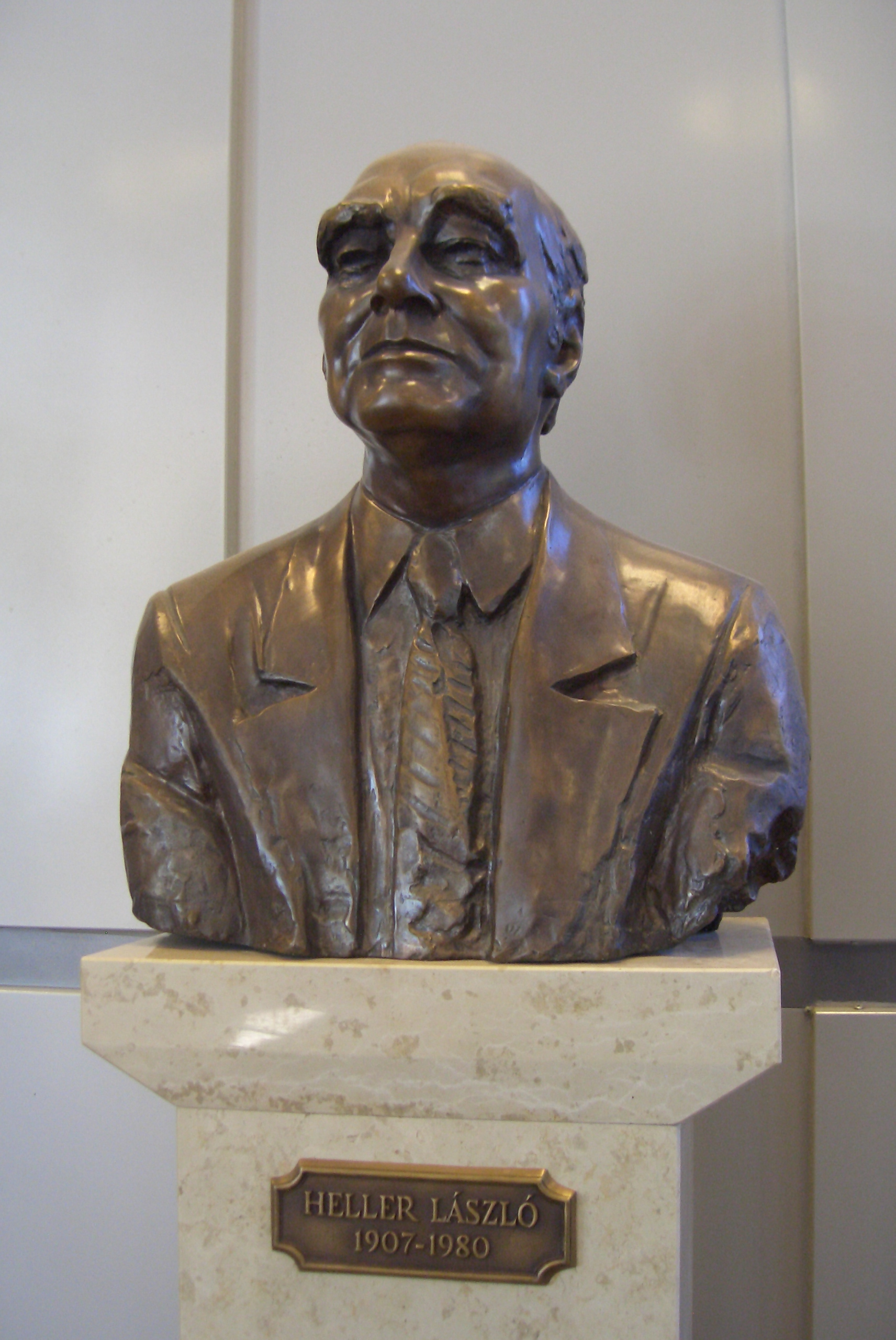 Bust of Professor László Heller, MSc Mech Eng, at the Budapest Technical University, Building D